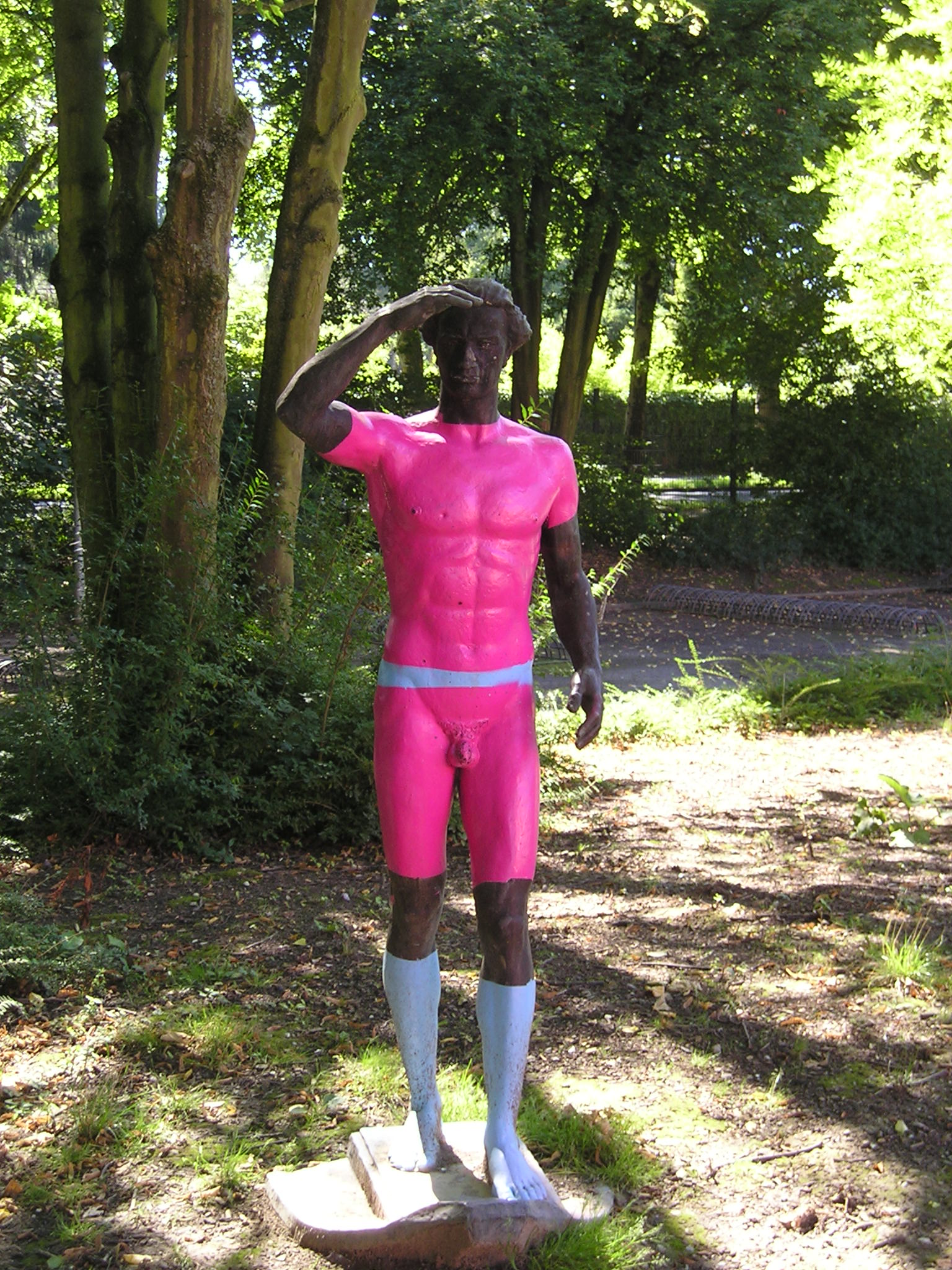 frontside of the statue of the male nude on the schoolyard of the Gymnasium Koblenzer Straße in Düsseldorf, bicycle racks are in the background.